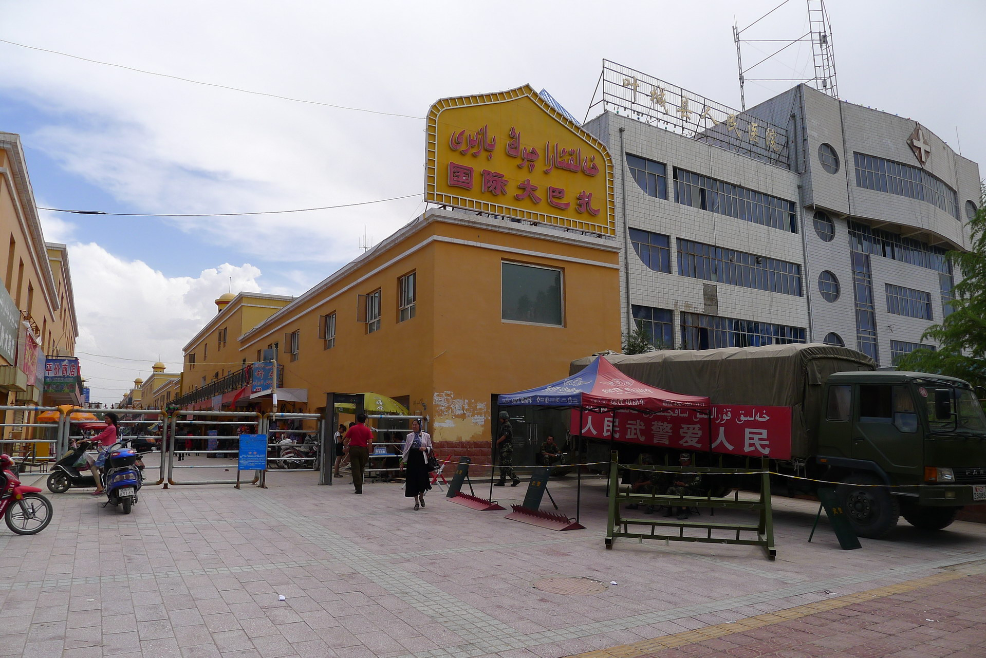 Bazaar in Kargilik under armed police guard